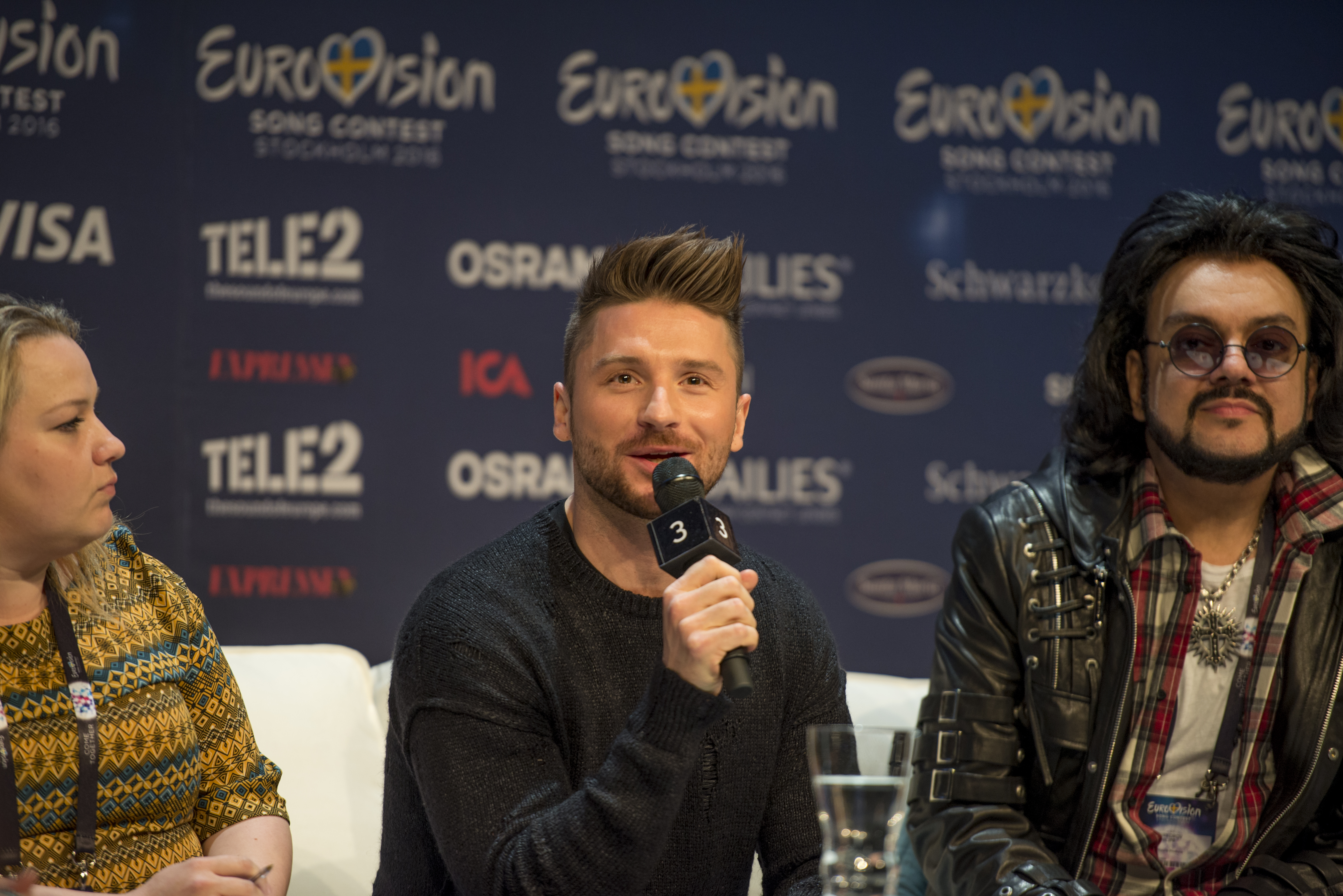 Sergey Lazarev at a Meet & Greet during the Eurovision Song Contest 2016 in Stockholm. (Help translate this text)